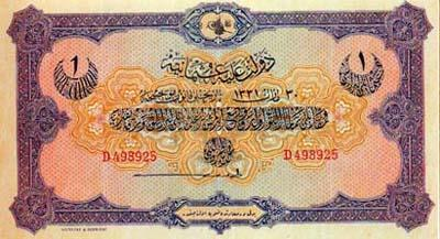 1 lira / obverse / 1st Emission / 30 March 1331 - 12 April 1915